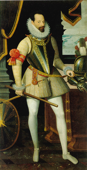 Portrait of Alexander Farnese, Duke of Parma (1545-1592)